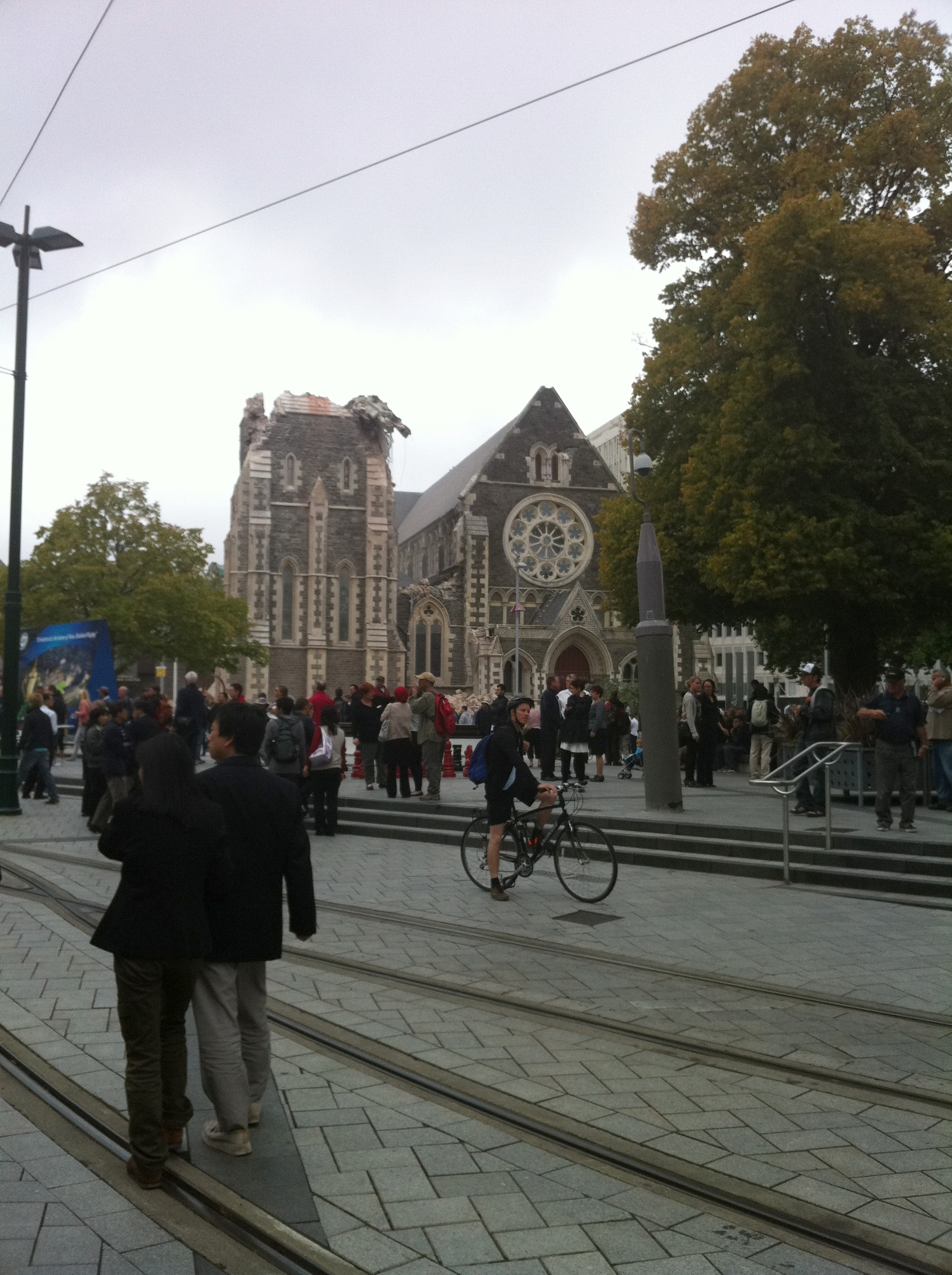 Photo of the ChristChurch Cathedral earthquake shortly after the 6.3 Magnitude earthquake, and before the second aftershock.